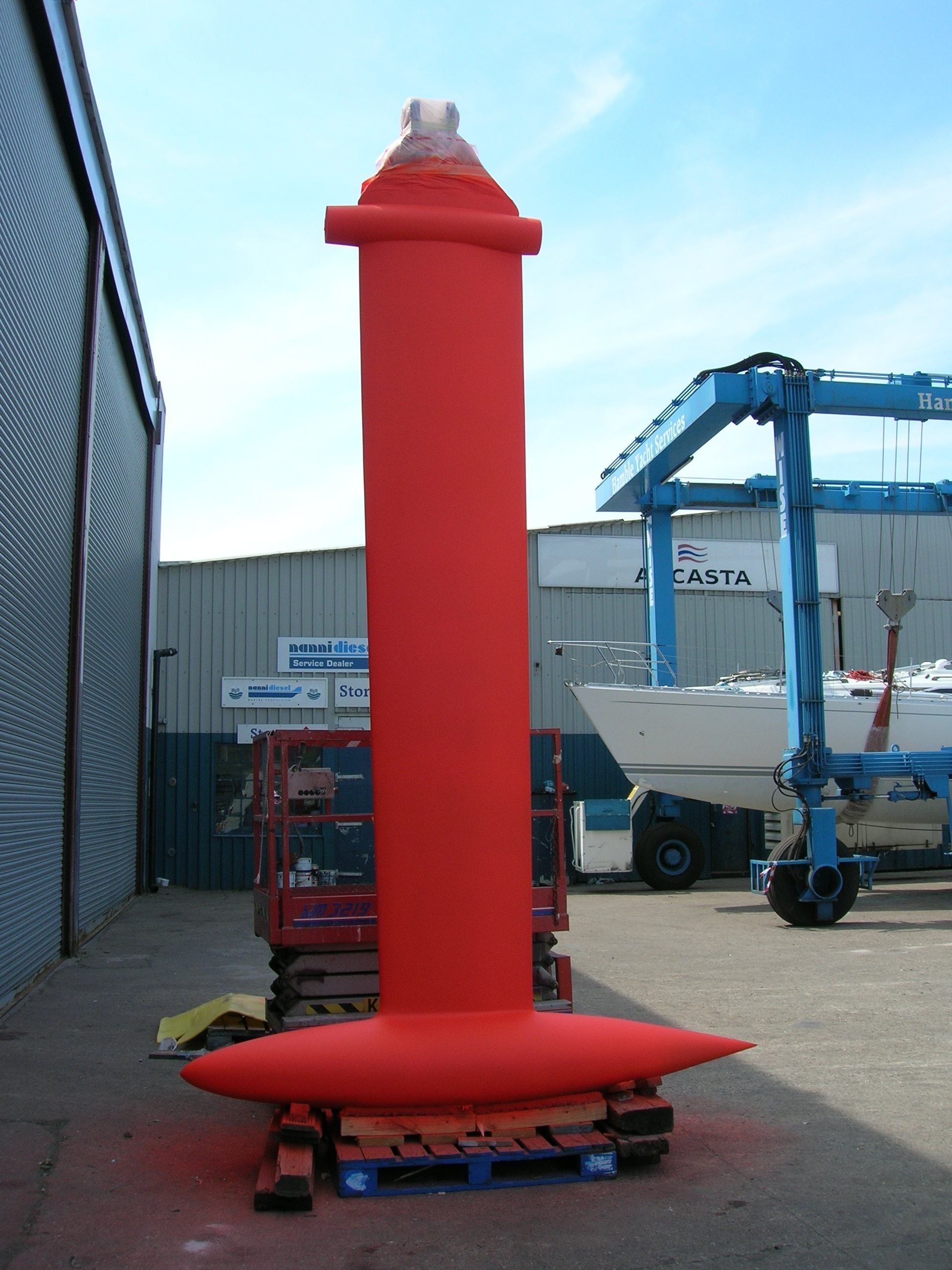 Canting keel with keel bulb before being installed on a sailboat.